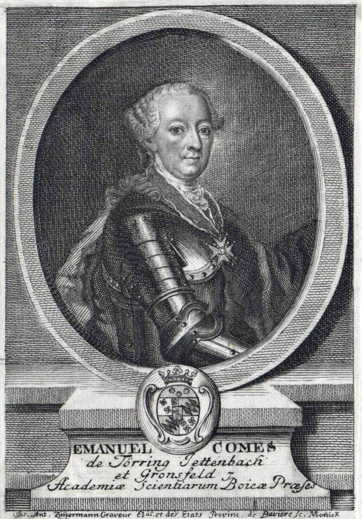 Max Emanuel von Toerring-Jettenbach (1715-1773) bayerischer Adeliger, Präsident der Bay. Akademie der Wissenschaften München